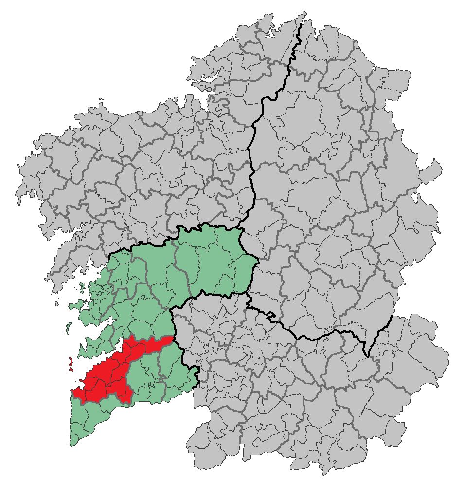 Region of Galicia (Spain)Based in: Image:Location of Betanzos.png Source: Designed by Leoplus. Original picture, designed by Caiser over a work made by Alyssalover.